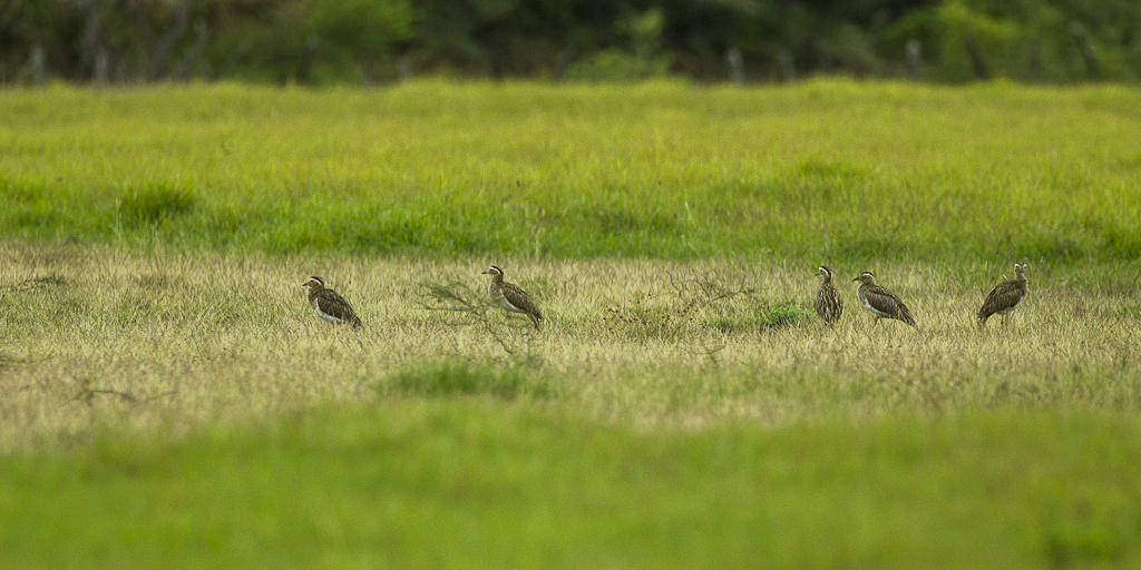 Double-striped Thick-knee - Chiapas - Mexico_S4E8098